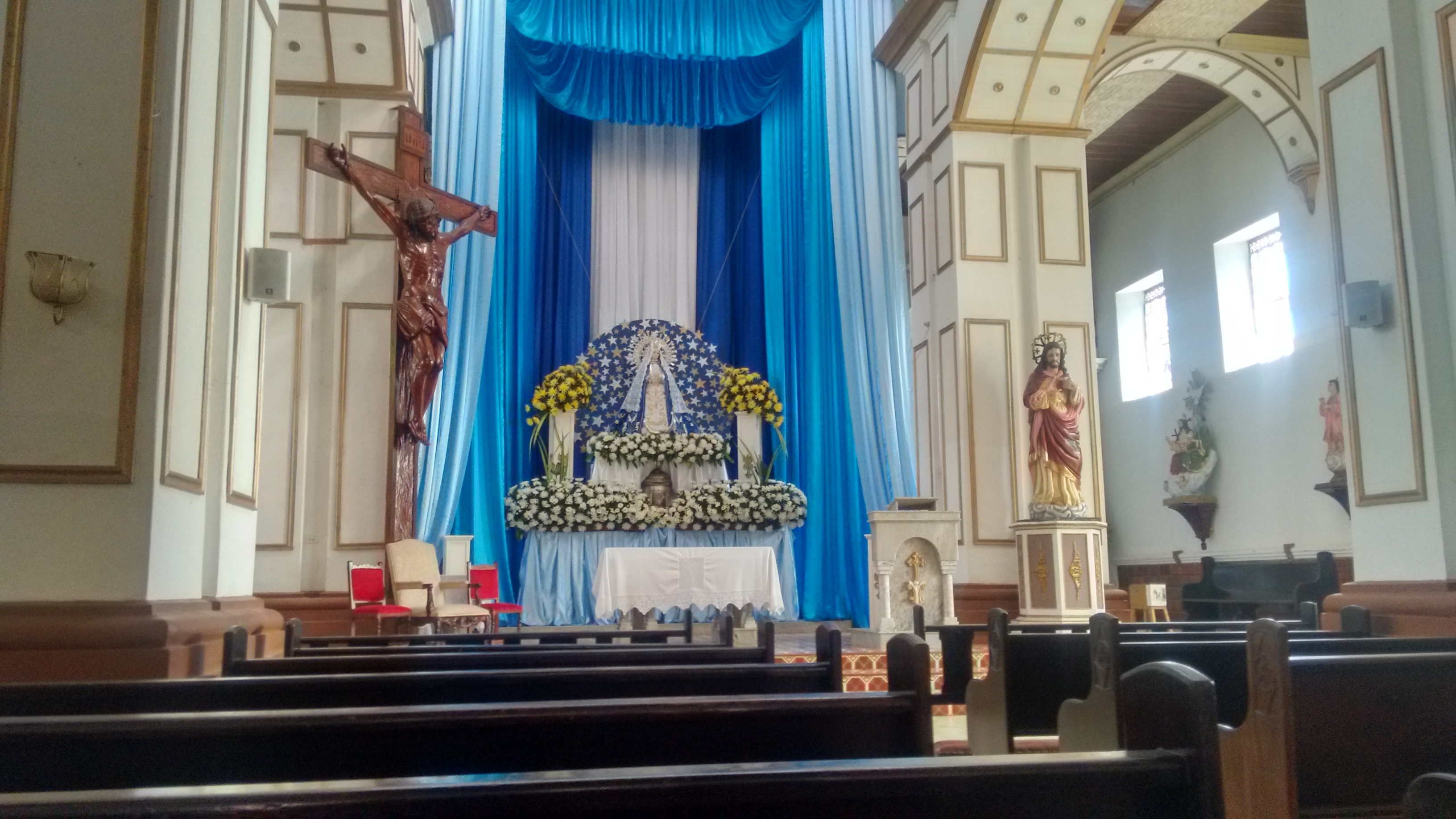 Iglesia de la Inmaculada Concepción, Carolina del Príncipe